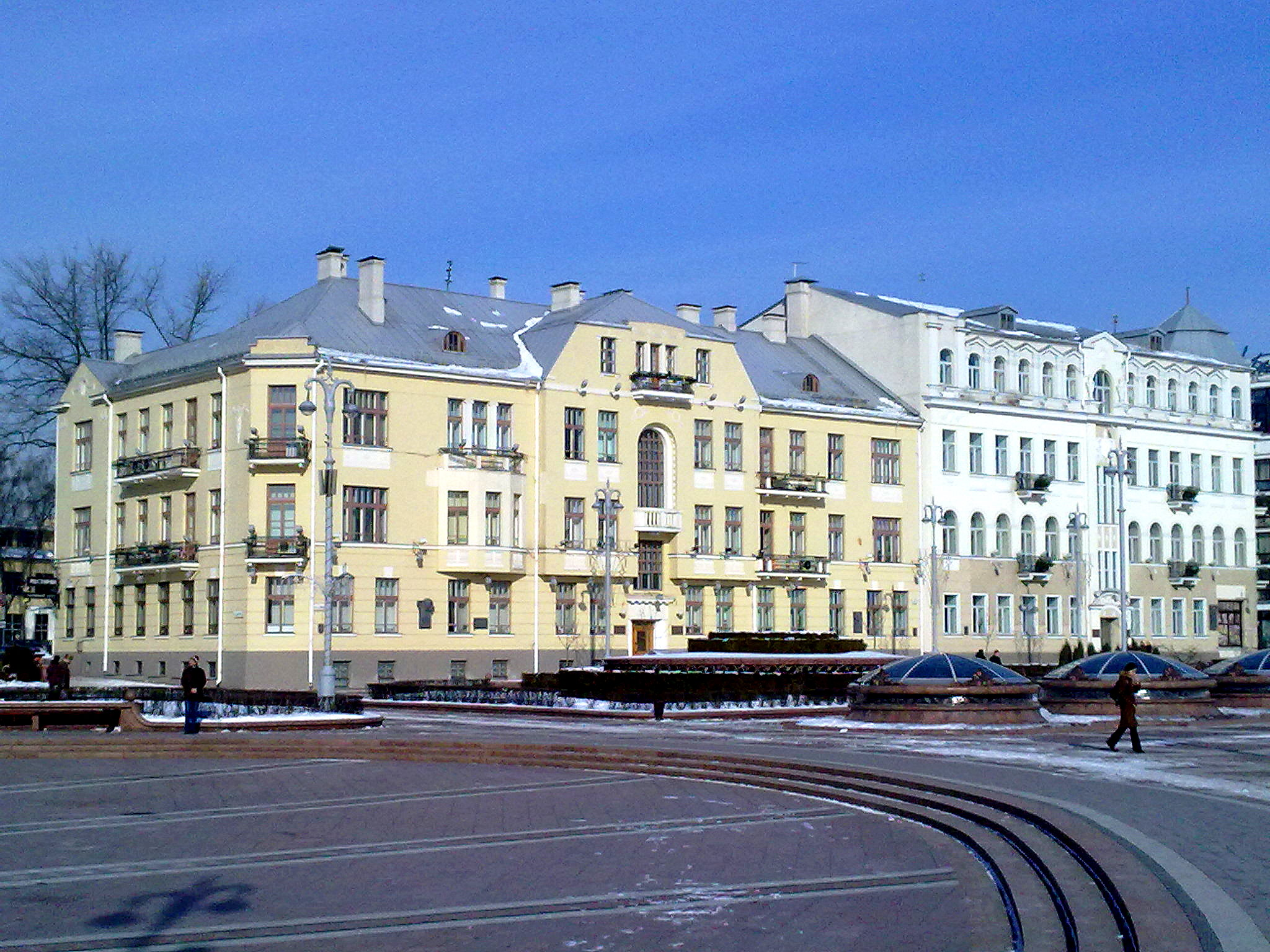 Беларуская (тарашкевіца): Будынак. г. Менск This is a photo of Belarusian heritage monument. Reference number: 713Г000231 ( WLM) This is a photo of Belarusian heritage monument. Reference number: 713Г000233 ( WLM)